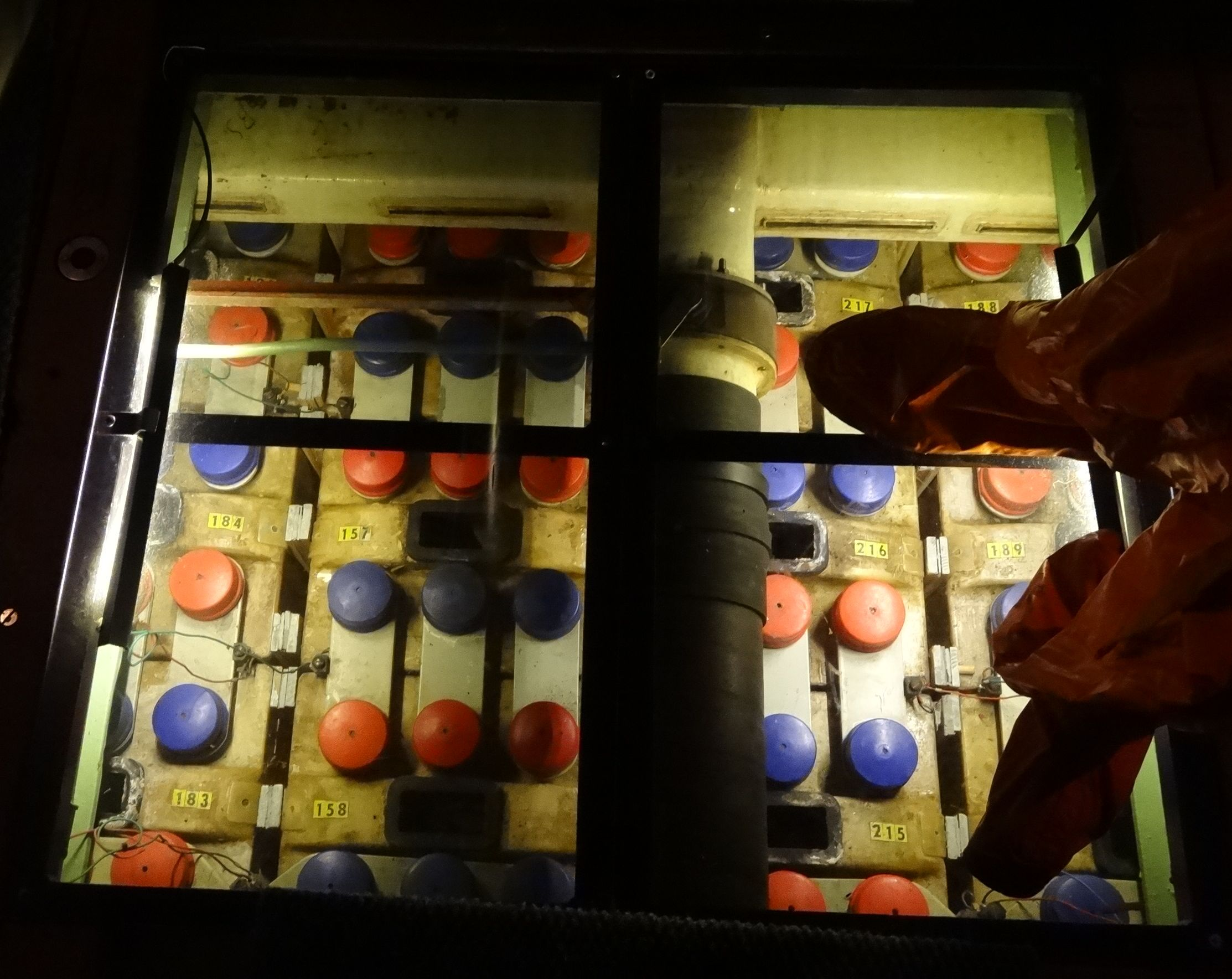 Lead-acid batteries connected in series onboard the Swedish museumsubmarine HMS Nordkaparen.